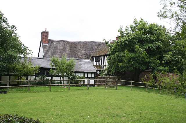 Bath House Genuine Tudor, by the look of it. I suspect the name relates to Spurstow Spa, the site of which is in a wood to the southeast. The waters were said to have medicinal properties, and Sir Thomas Mostyn built baths here which were said to be "much frequented" in the 1700s. By 1848 they were reported as "not at present in repute", although an analysis of the water found it to be rich in sulphates of sodium and magnesium.